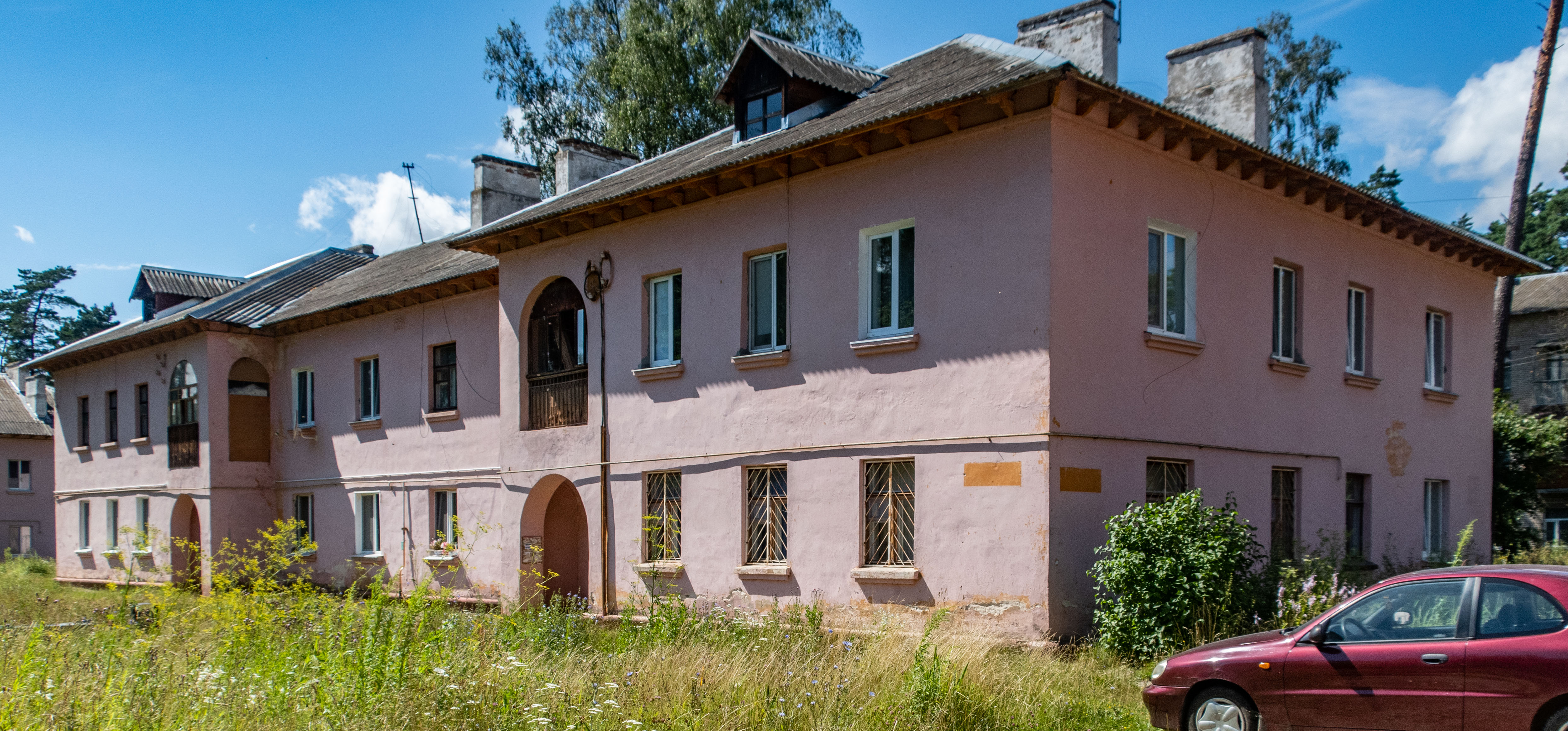 Mačuliščy (Machulishchi). Minsk district, Belarus